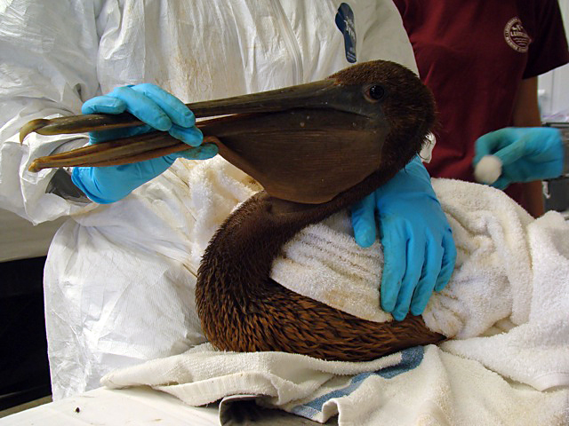 Oiled Brown Pelican upon intake May 20, 2010 at Fort Jackson, Louisiana Oiled Wildlife Center.